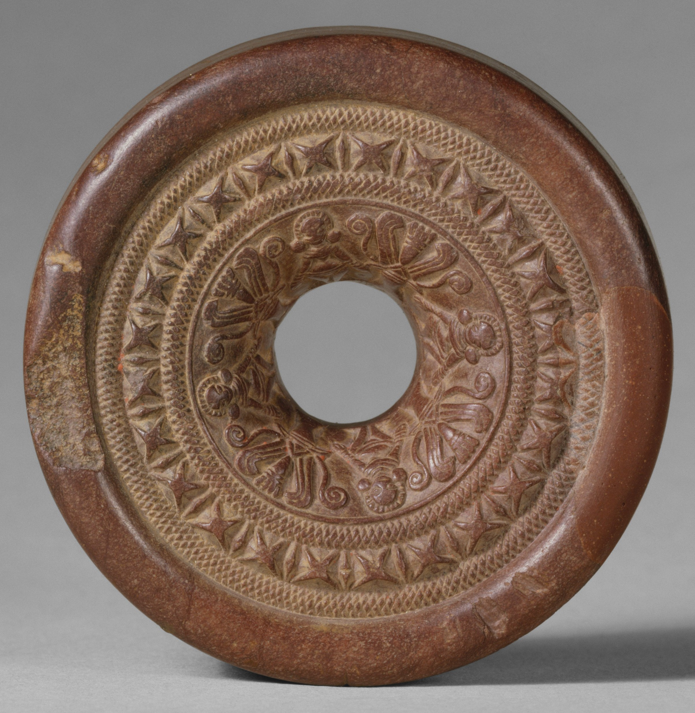 North India; Ring stone; Sculpture Date 1st–2nd century B.C.